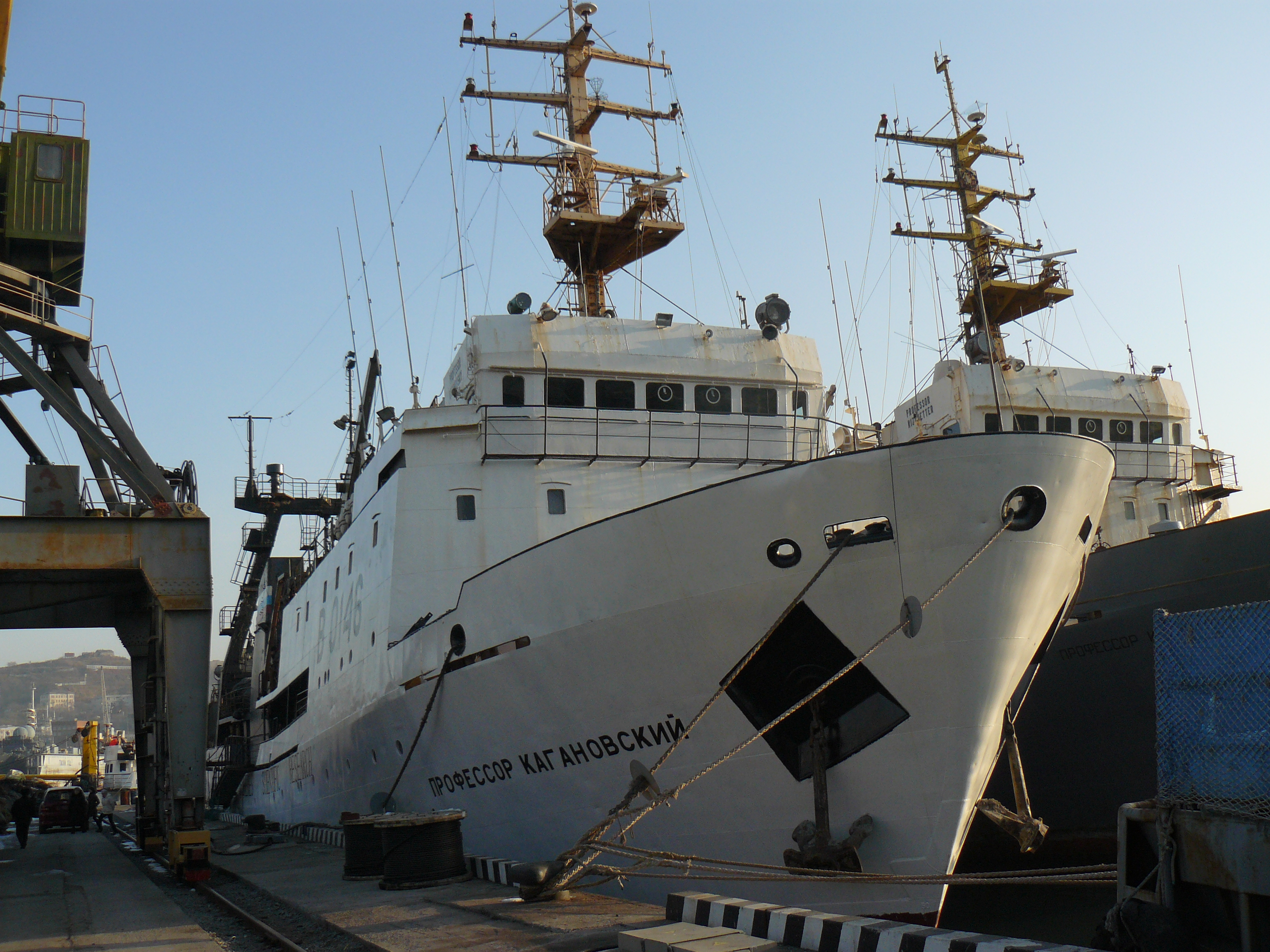 Research vessel "Professor Kaganovsky" in port Vladivostok before going on an expedition in the Okhotsk sea and in the North-Western Pacific ocean